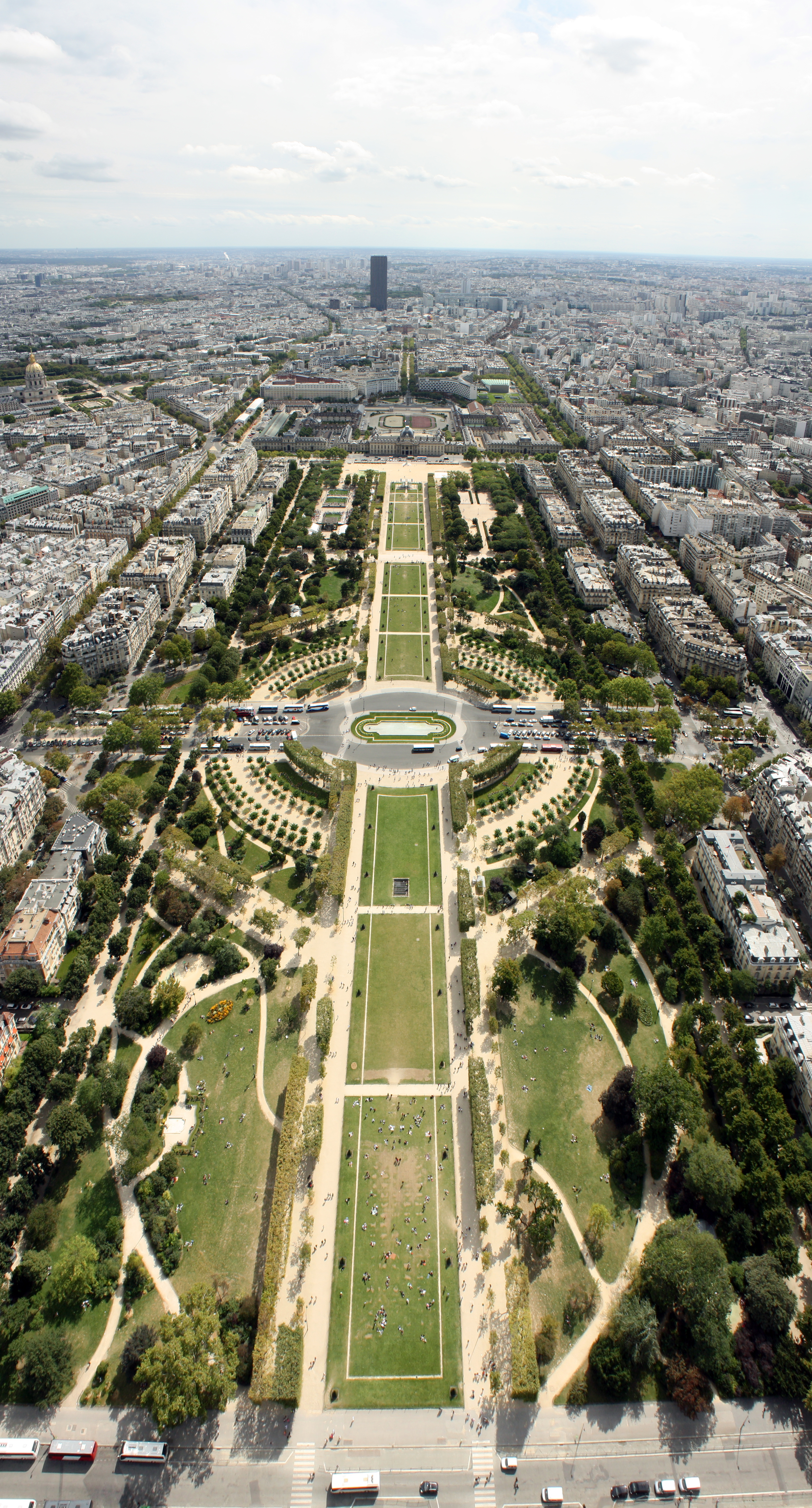 Composite of 5 photos from top of Eiffel Tower overlooking the Champ-de-Mars